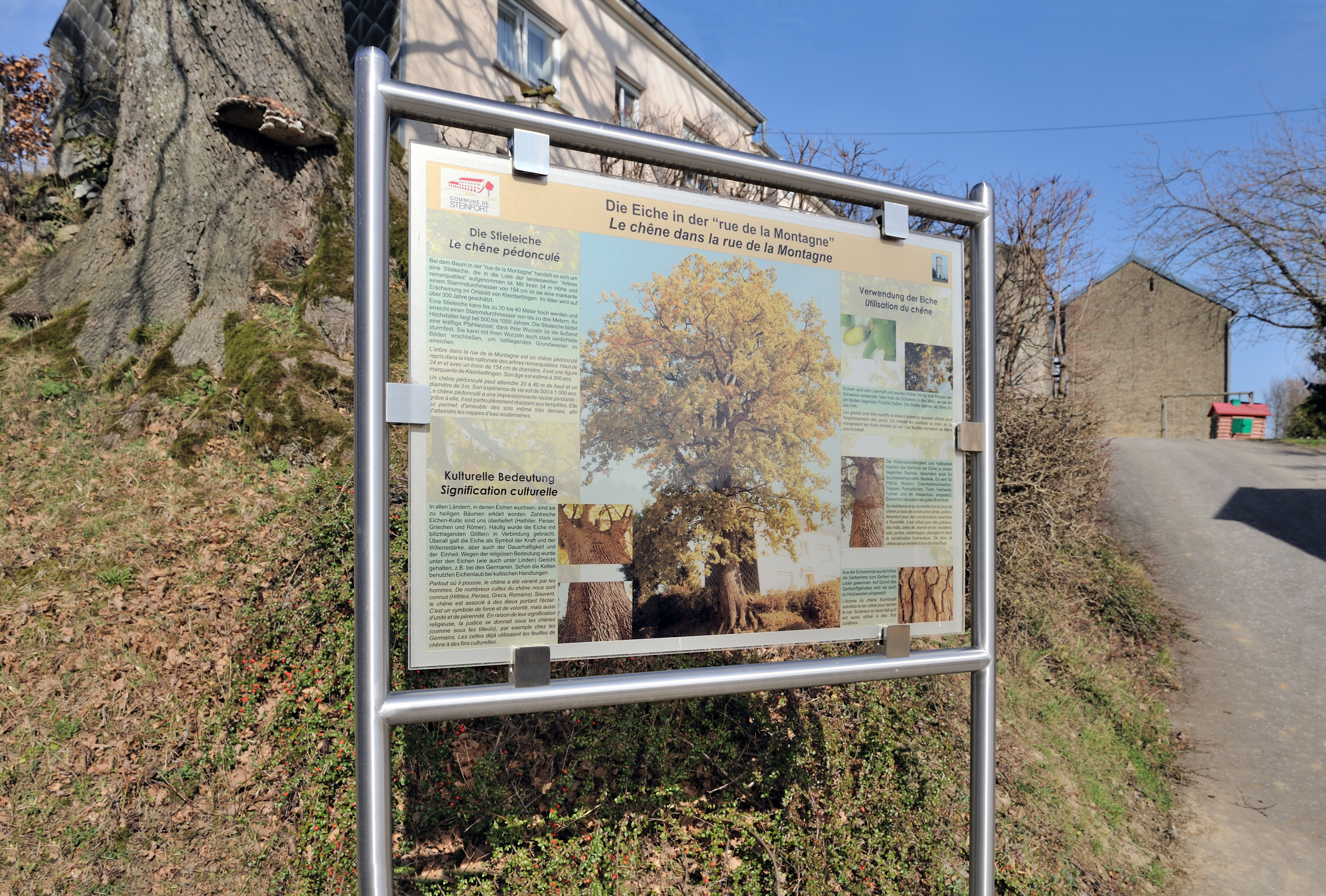 Luxembourg, Kleinbettingen: remarkable oak (Quercus robur). Protected since July 19 2001.